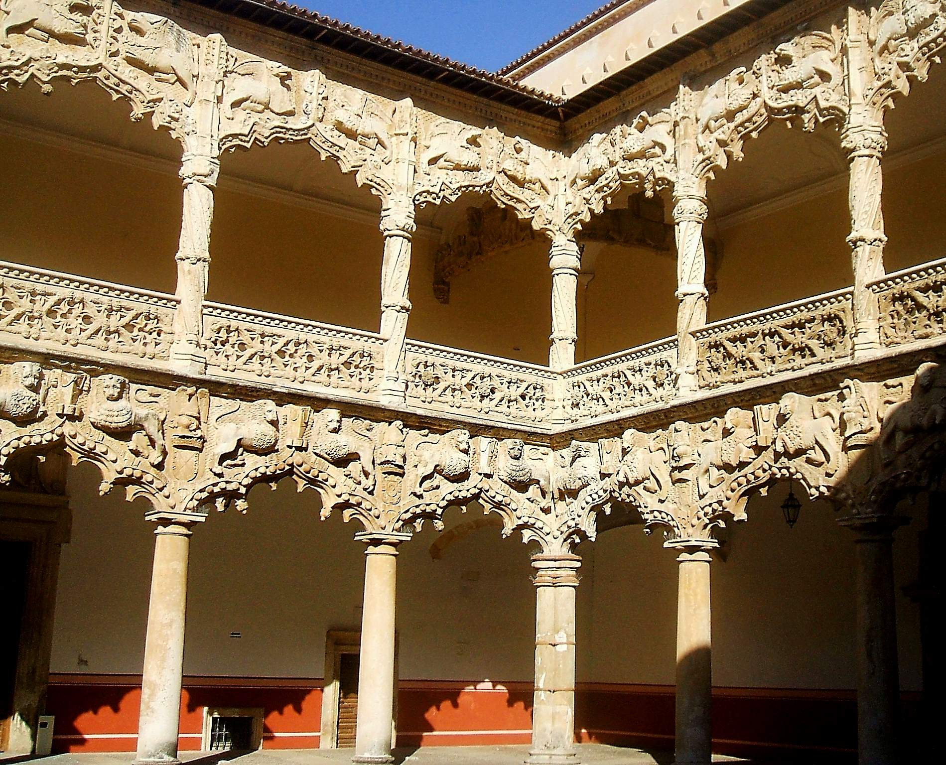 Patio del Palacio de los Duques del Infantado, Guadalajara